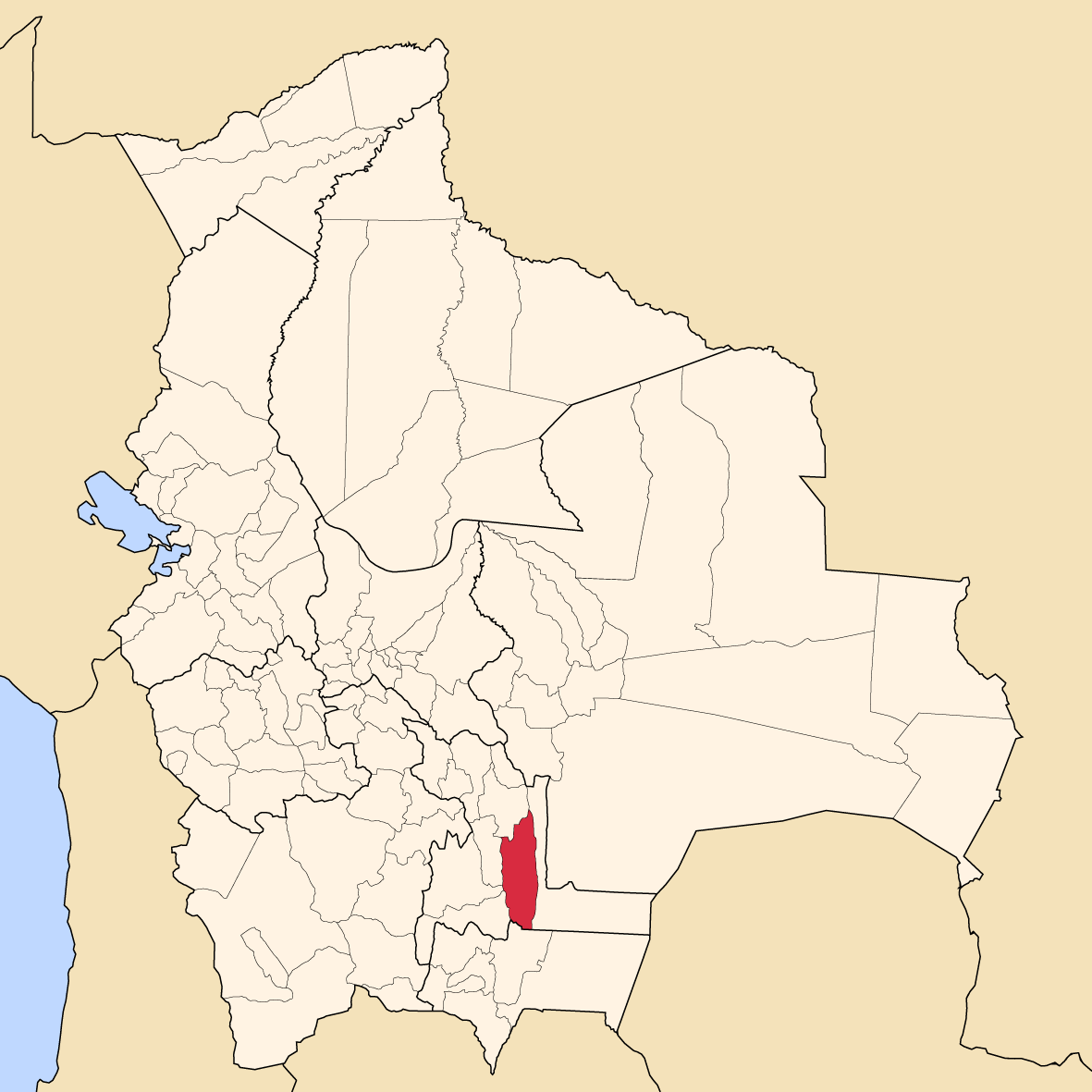 Map of Bolivia showing Hernando Siles province, Chuquisaca